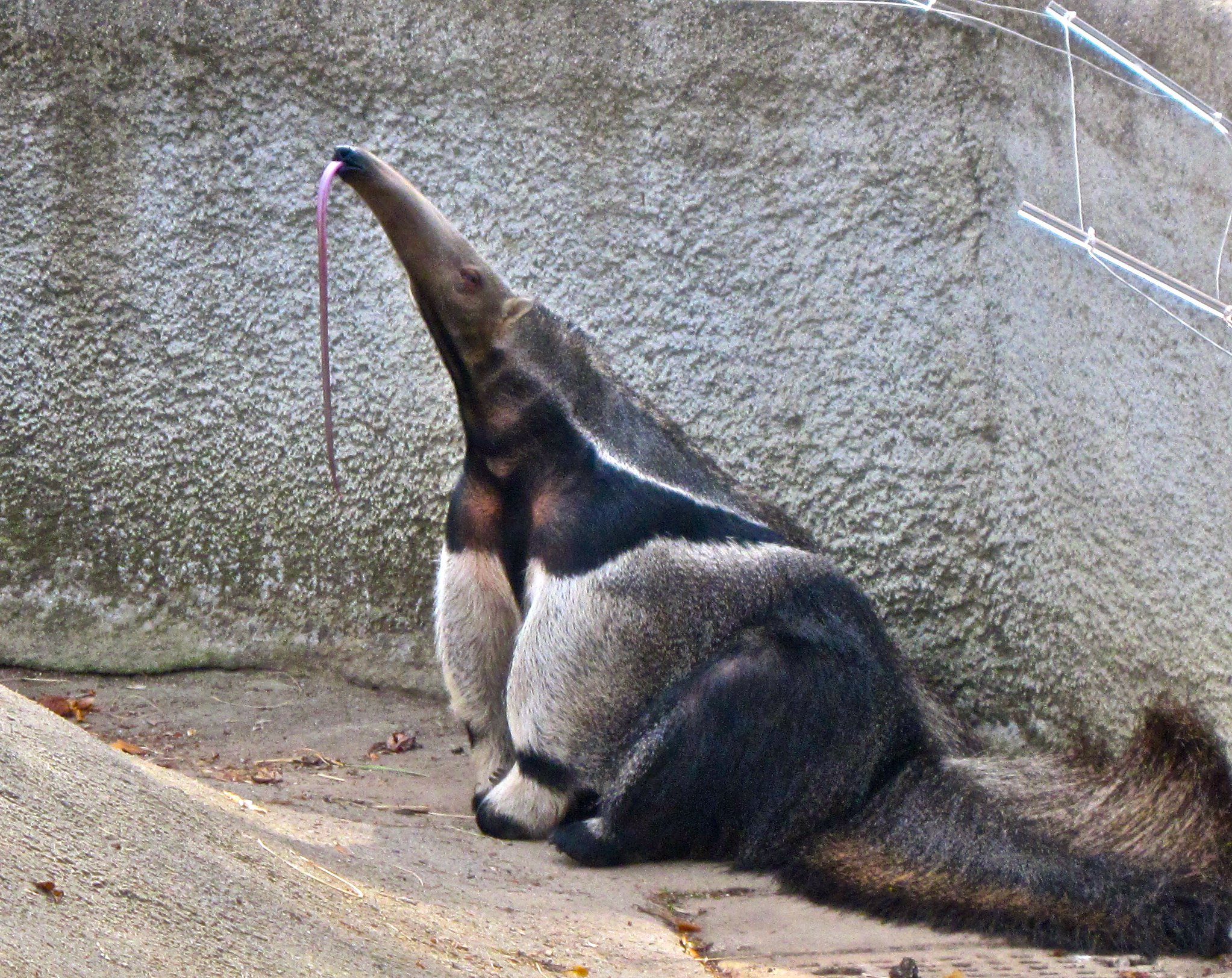 A Giant Anteater sticking his tongue out at Detroit Zoo, Michigan, USA.